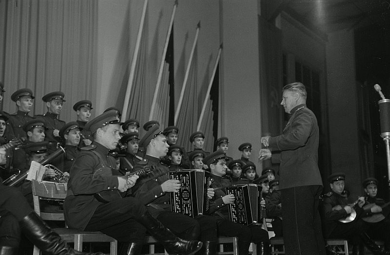 Celebration of Joseph Stalin's 73rd birthday in Leipzig, 21 December 1952. Playing the A. V. Alexandrov Soviet army twice red-bannered and red-starred song and dance ensemble. Conductor B. Alexandrov (?)